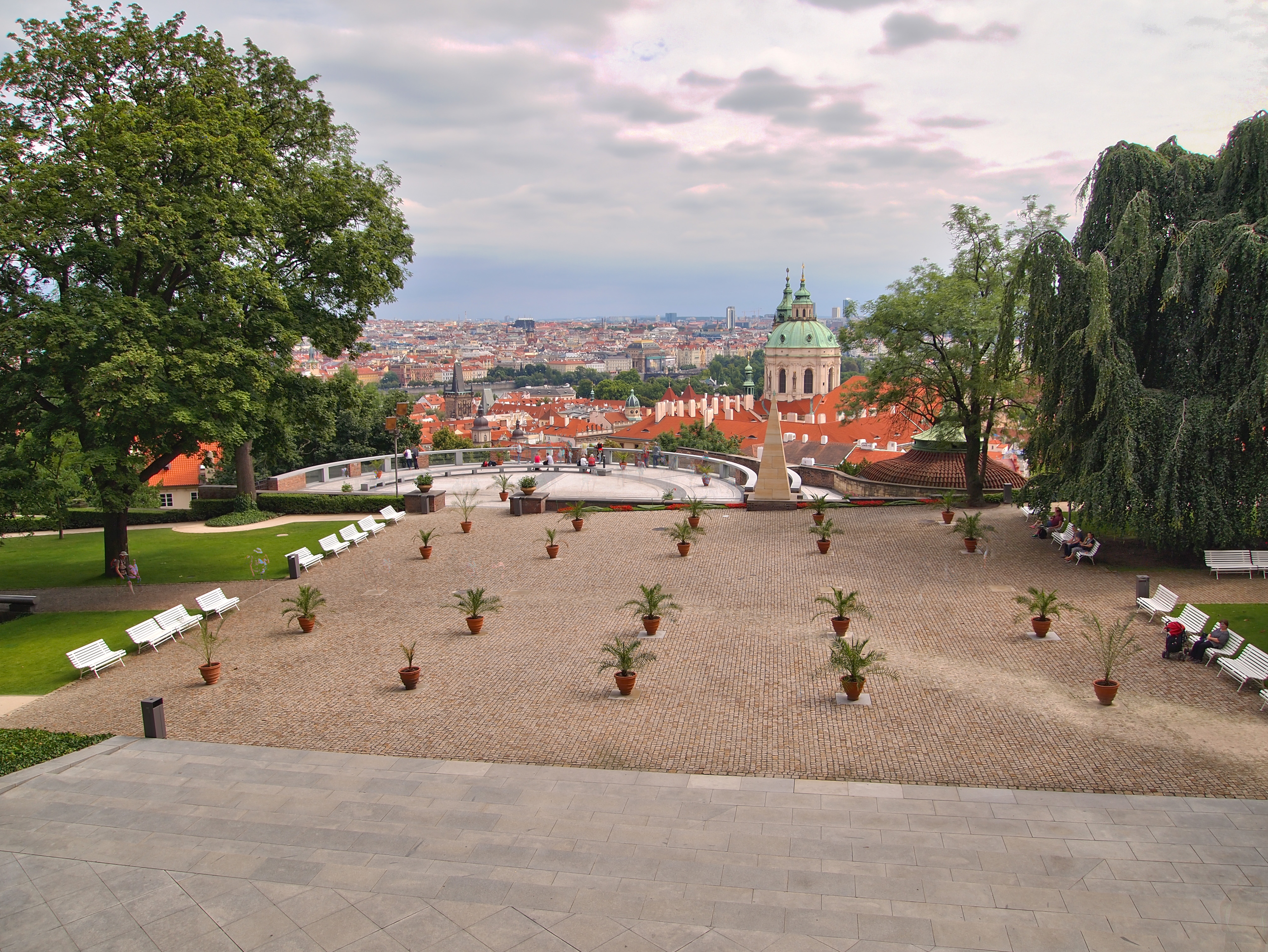 Yard of Prague Castle. This photograph was taken with an Olympus E-PL1